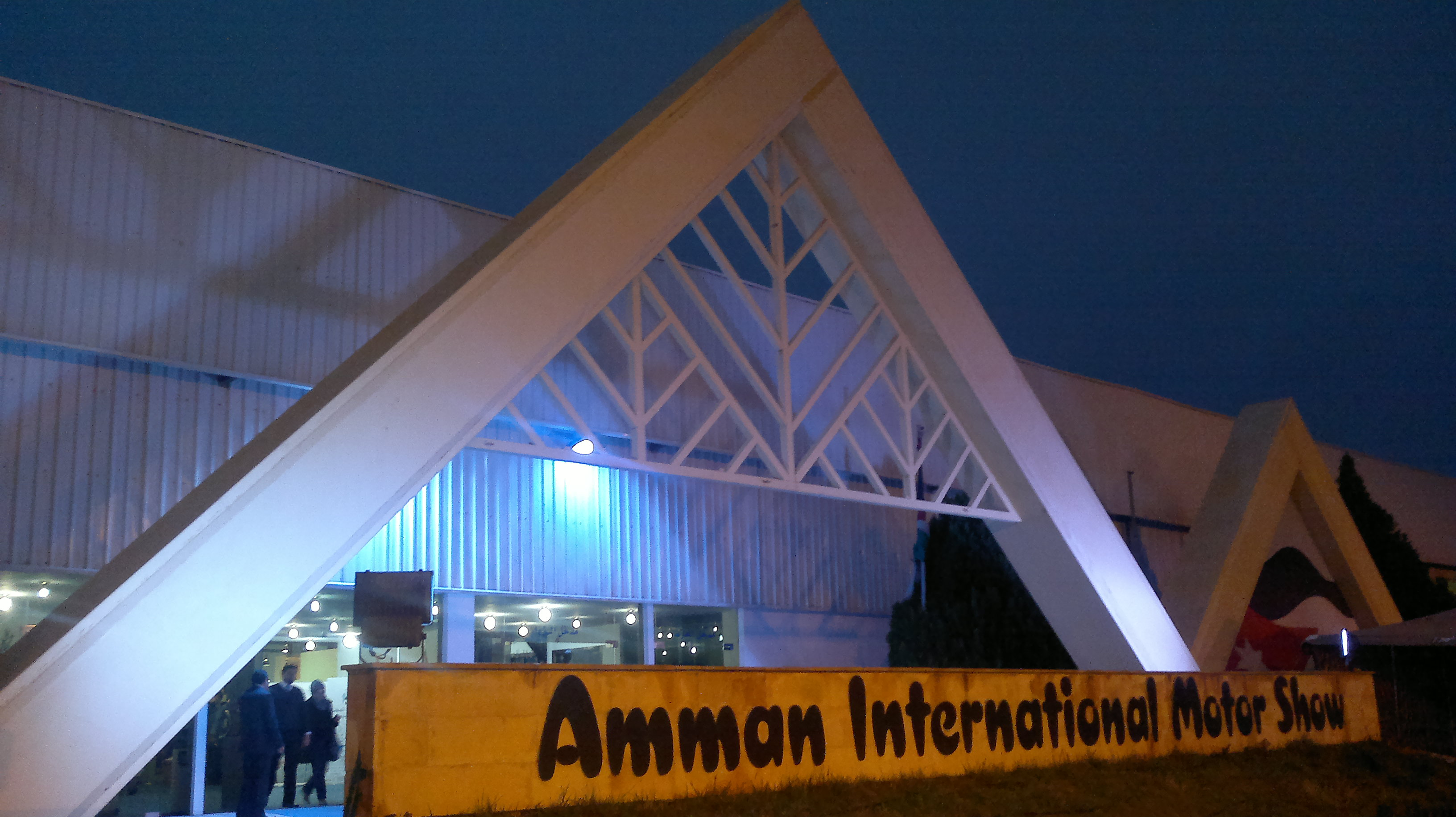 Amman Int. Motor show